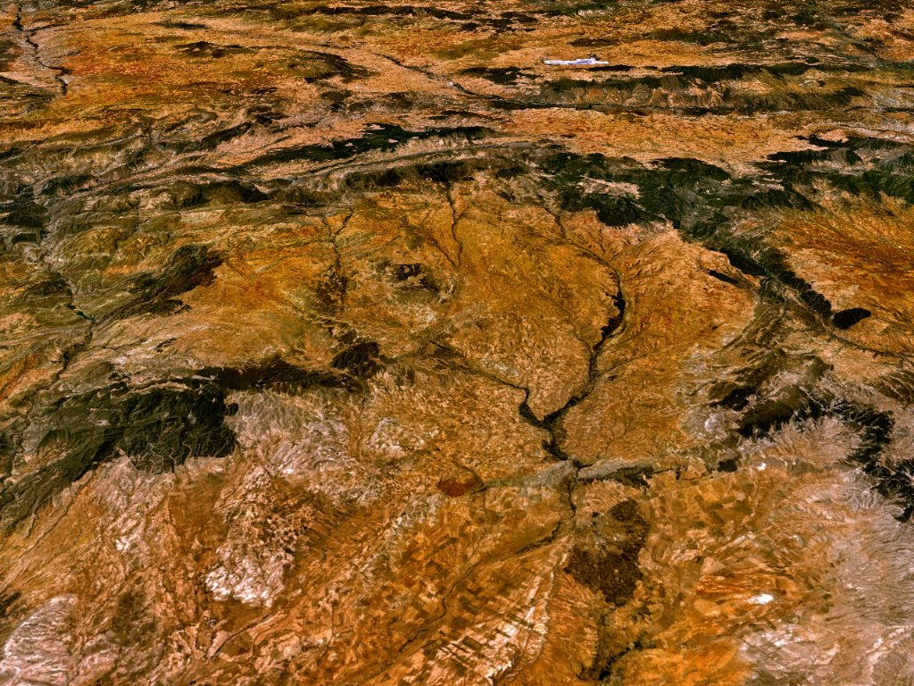 The 30 km Azuara basin, a possible impact crater, is located in northeastern Spain, about 50 km south of Zaragoza. View from northeast. Vertical exaggeration 3x.